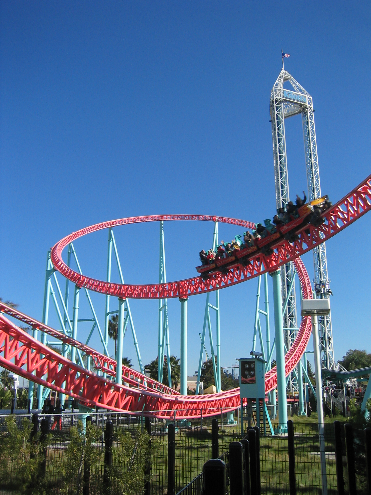 Xcelerator's Red Train exits the first overbanked turn. Photo (CC) 2003 by Kevin Smith.